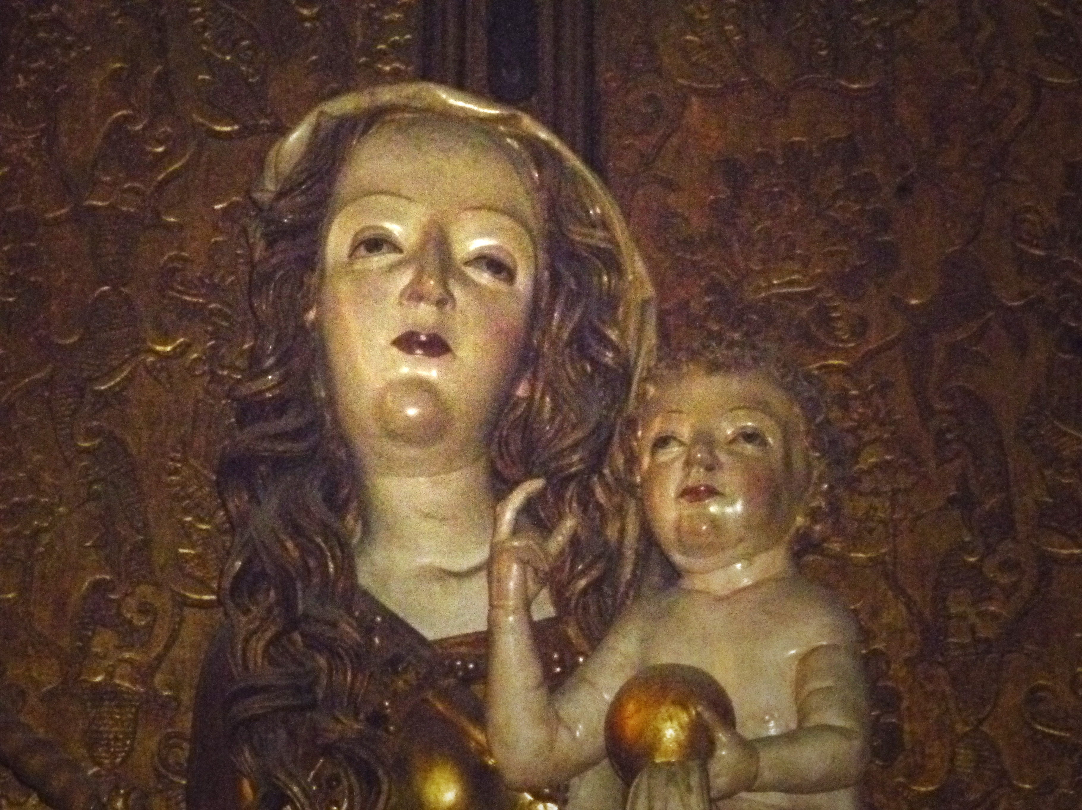 "Virgin Mary and Child", "Altar of St. Barbara", retable by Master Paul of Levoča in the Church of the Assumption in Banská Bystrica (Slovakia).